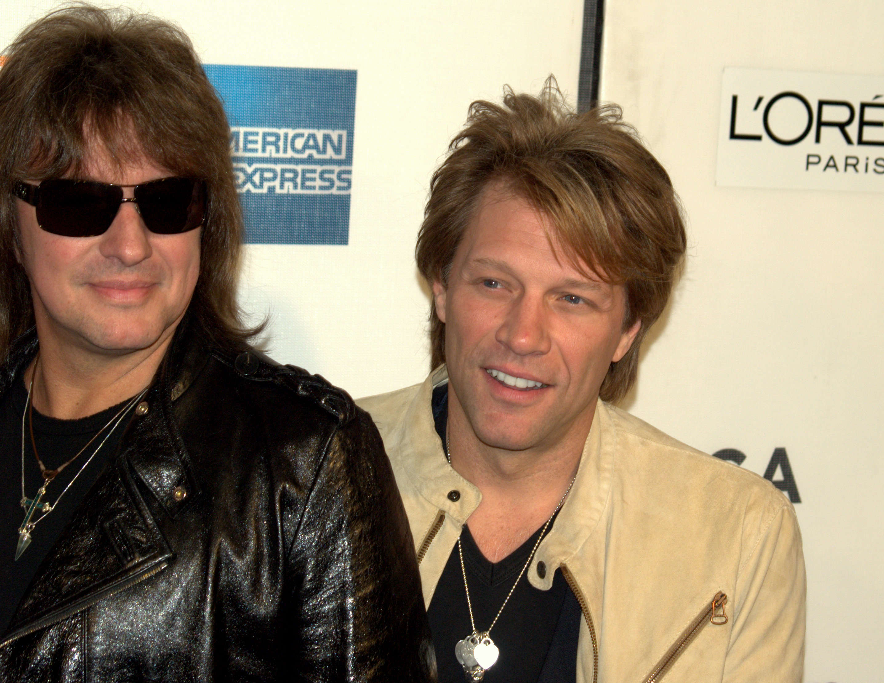 Richie Sambora and Jon Bon Jovi at the 2009 Tribeca Film Festival for the premiere of When We Were Beautiful. Photographer's blog post about this event and photograph.